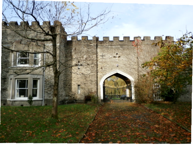 Gatehouse circa 1807 (known today as "Ivy Lodge") of demolished Yeotown House in the parish of Goodleigh, North Devon. Yeotown is situated in the sequestered wooded valley of the small River Yeo, about 3 miles south-west of the village of Goodleigh. The mansion house formerly owned by the Beavis family was remodelled in about 1807 in the neo-gothic style by Robert Newton Incledon (1761-1846), husband of Elizabeth Beavis and eldest son of Benjamin Incledon (1730-1796) of Pilton House, Pilton, near Barnstaple, an antiquarian and genealogist and Recorder of the Borough of Barnstaple (1758–1796). It was demolished during his lifetime and today only one of the large gatehouse survives, since converted into a farmhouse known as Ivy Lodge.